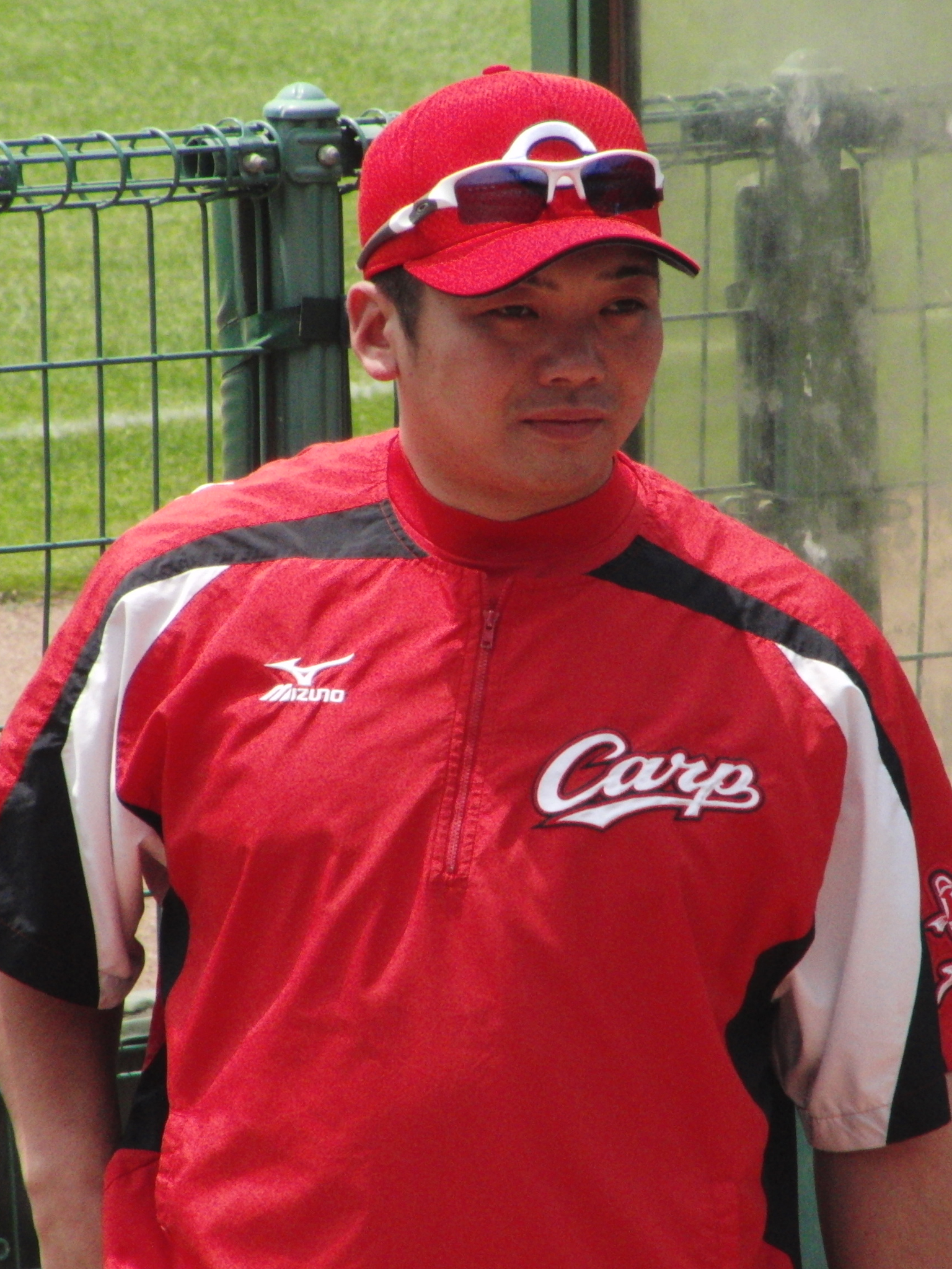 Masaru Nagata, bullpen catcher of the Hiroshima Toyo Carp, at Kobe Sports Park Baseball Stadium.